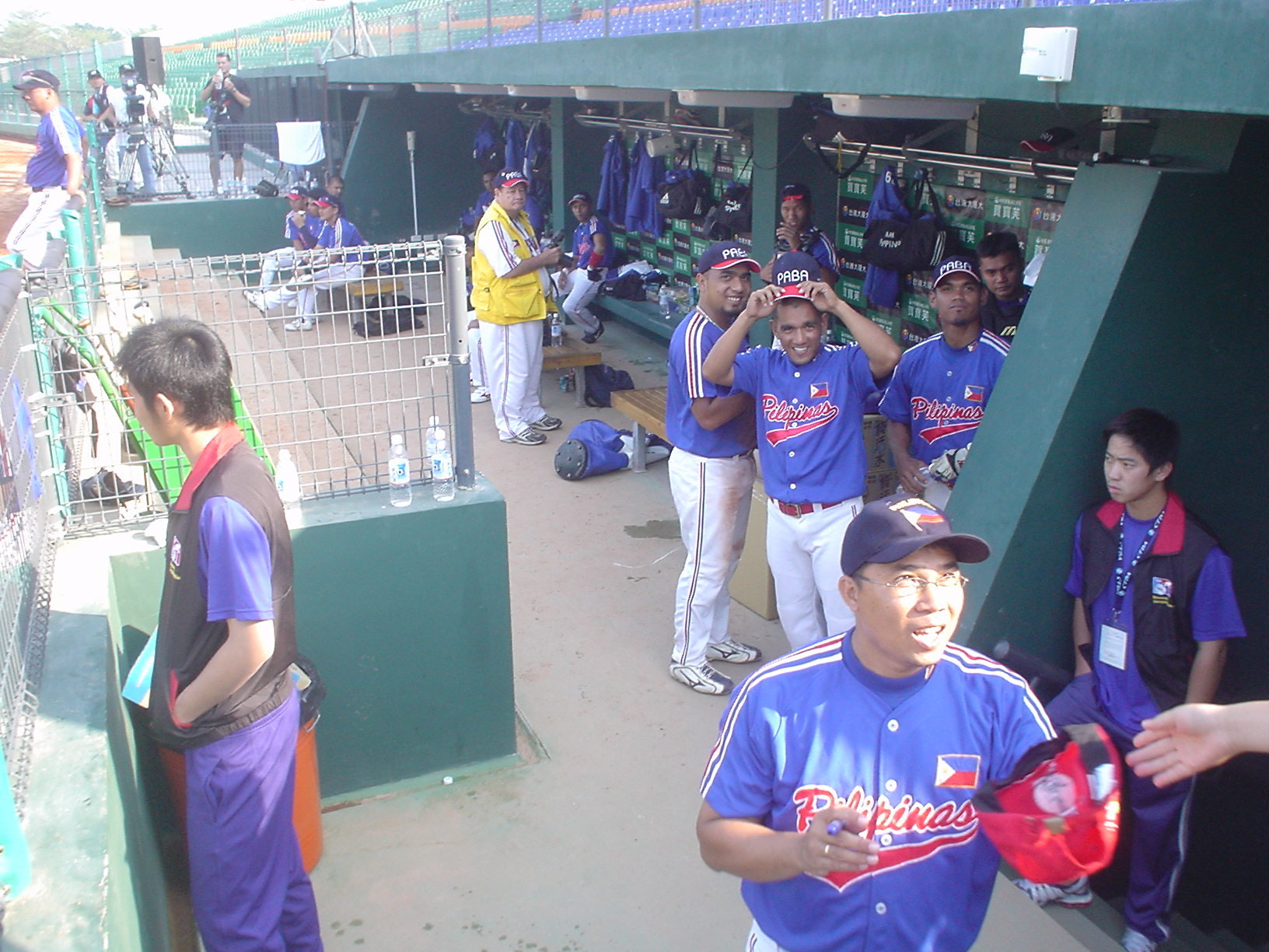 A look inside the first base dugout with players and coaches from the Philippines in the inagural game of Taichung Intercontinental Baseball Stadium in a 2006 Intercontinental Cup game played on September 9, 2006. Photo taken on September 9, 2006.